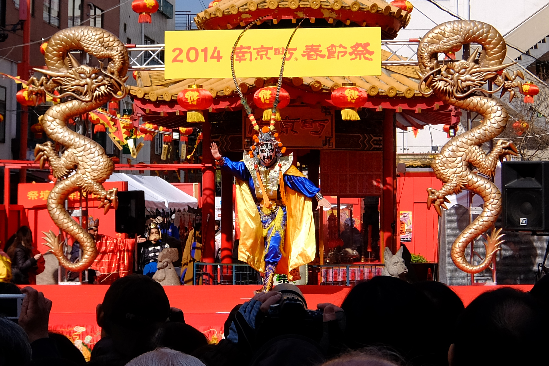 Chinese New Year 2014 at Kobe Chinatown in Kobe, Hyogo prefecture, Japan.